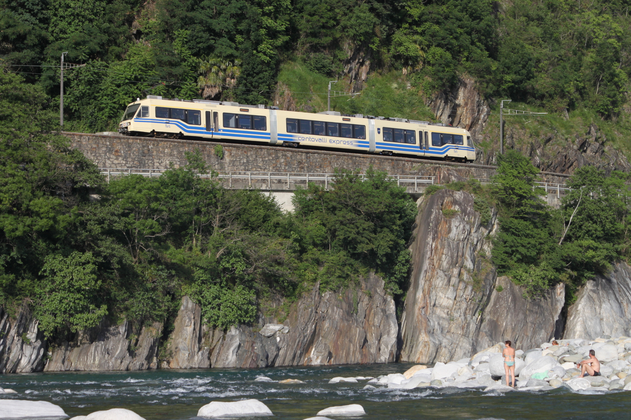 FART ABe 4/8 46 running as D 90 "Centovalli Express" from Locarno to Domodossola between S. Martino and Ponte Brolla.